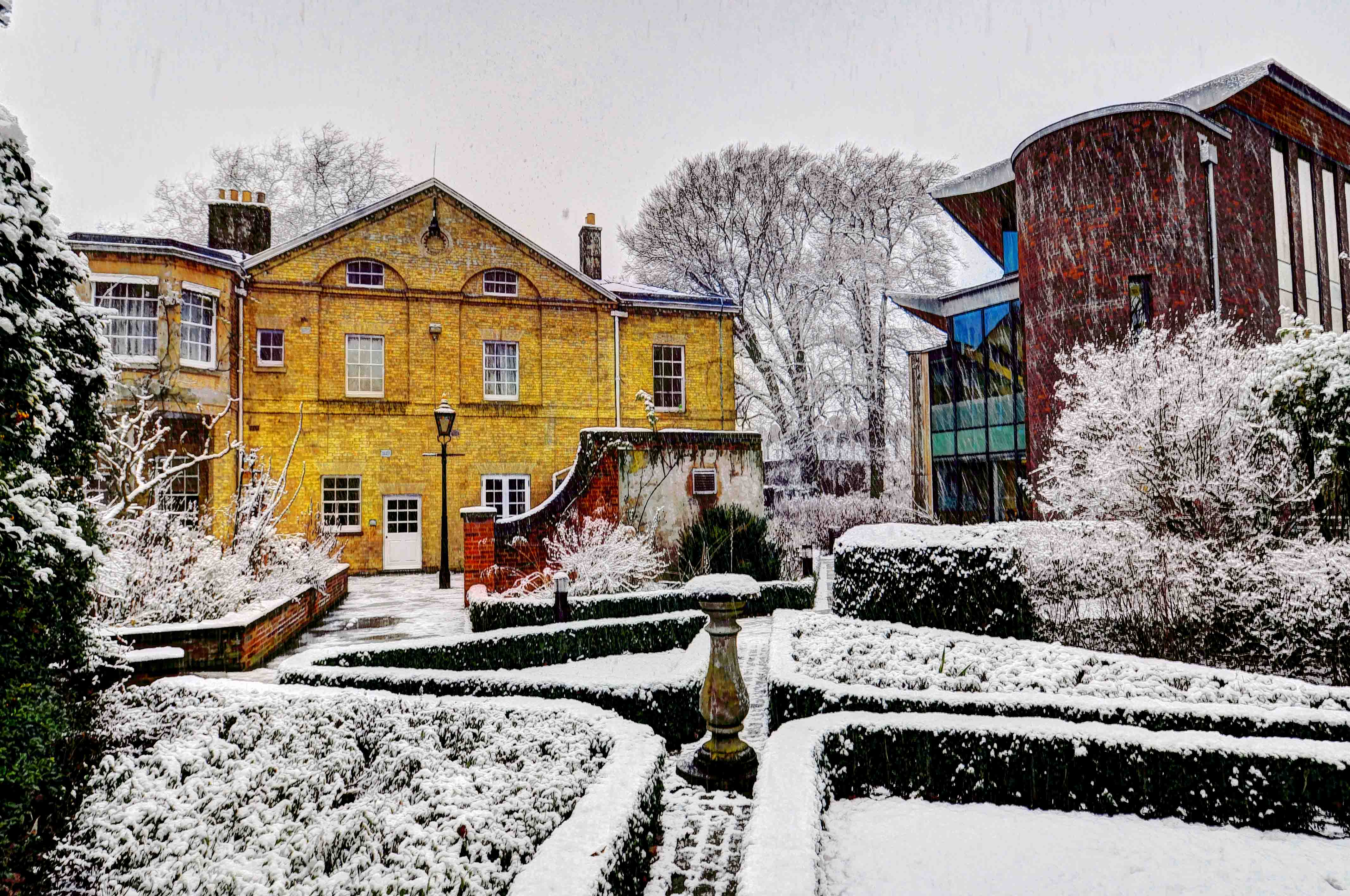 A photo of the college during snowfall, with the new library on the right, grove on the left and the hall in the middle.